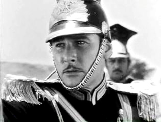 Cropped screenshot of Errol Flynn from the film The Charge of the Light Brigade